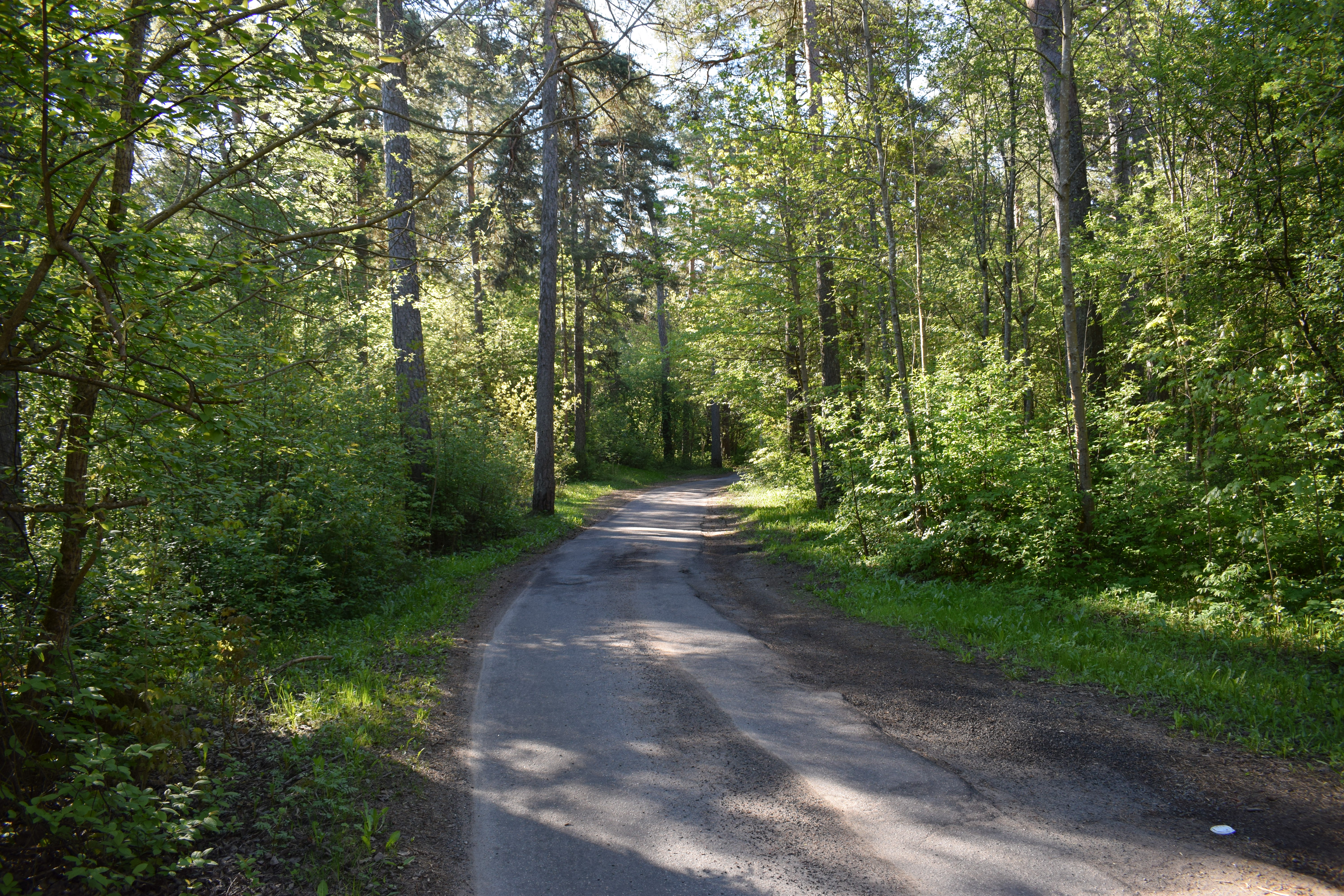 Vesiveski tee